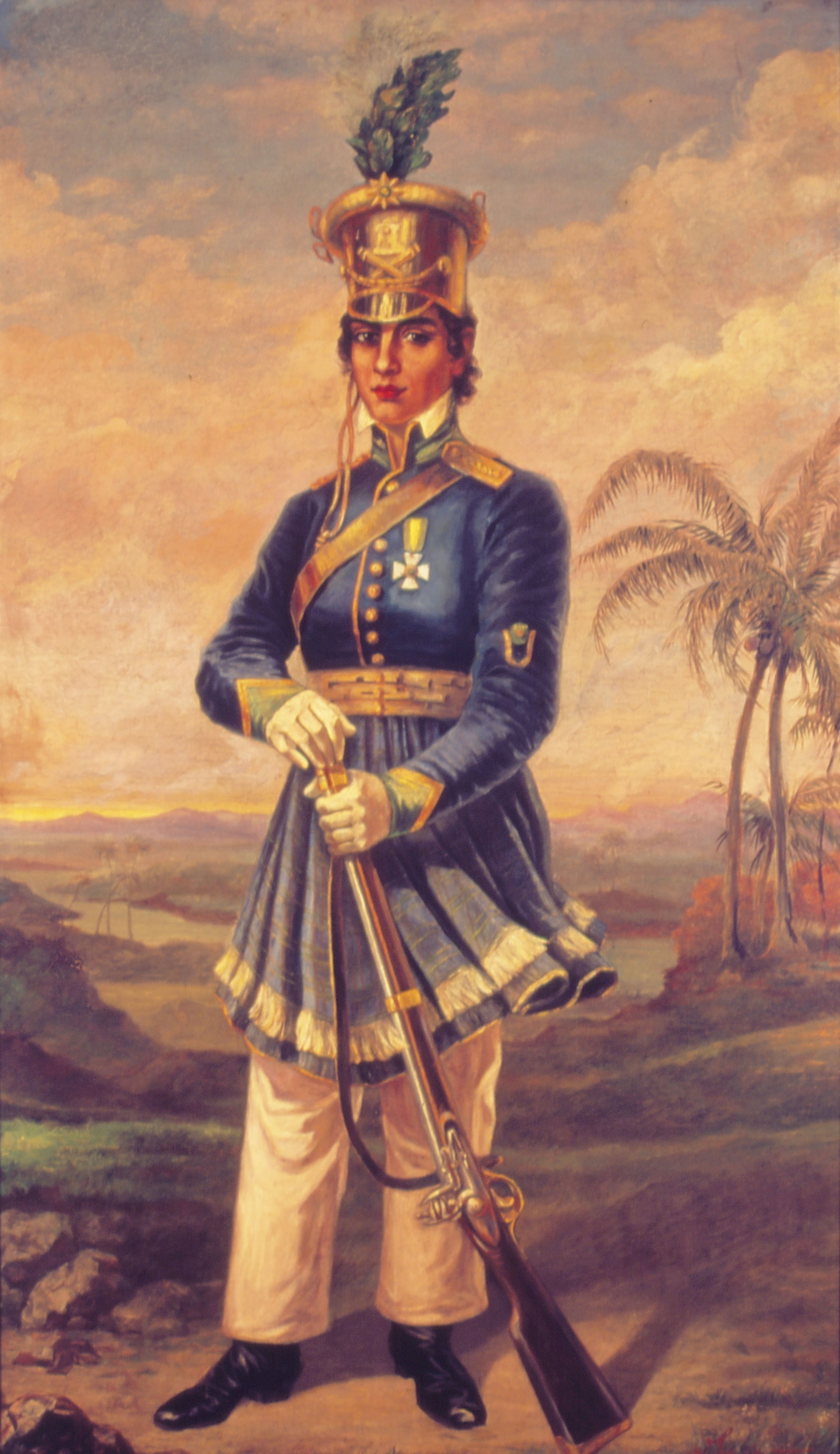 Painting of Maria Quitéria (1792-1853), who served in the Brazilian army during the War of Independence. She was nicknamed the Brazilian Joan of Arc.